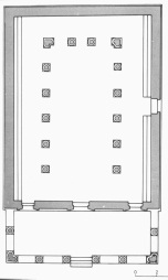 Bar'am Synagogue, a plan